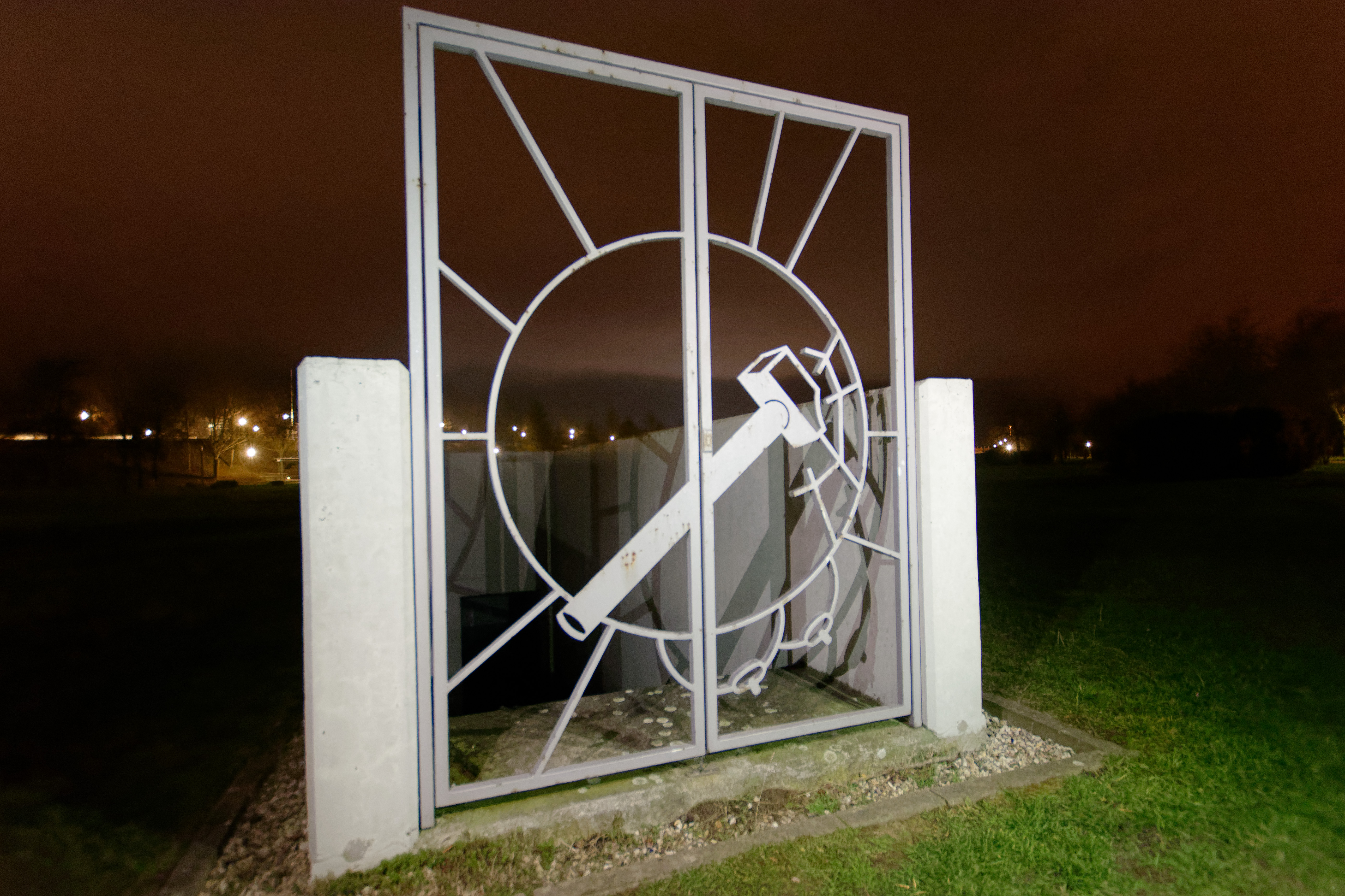 Metro-Net is an imaginary subway network and is aimed at mind travelers - thinking about it means being on the way. The door shows the Lord Jim Lodge signet.